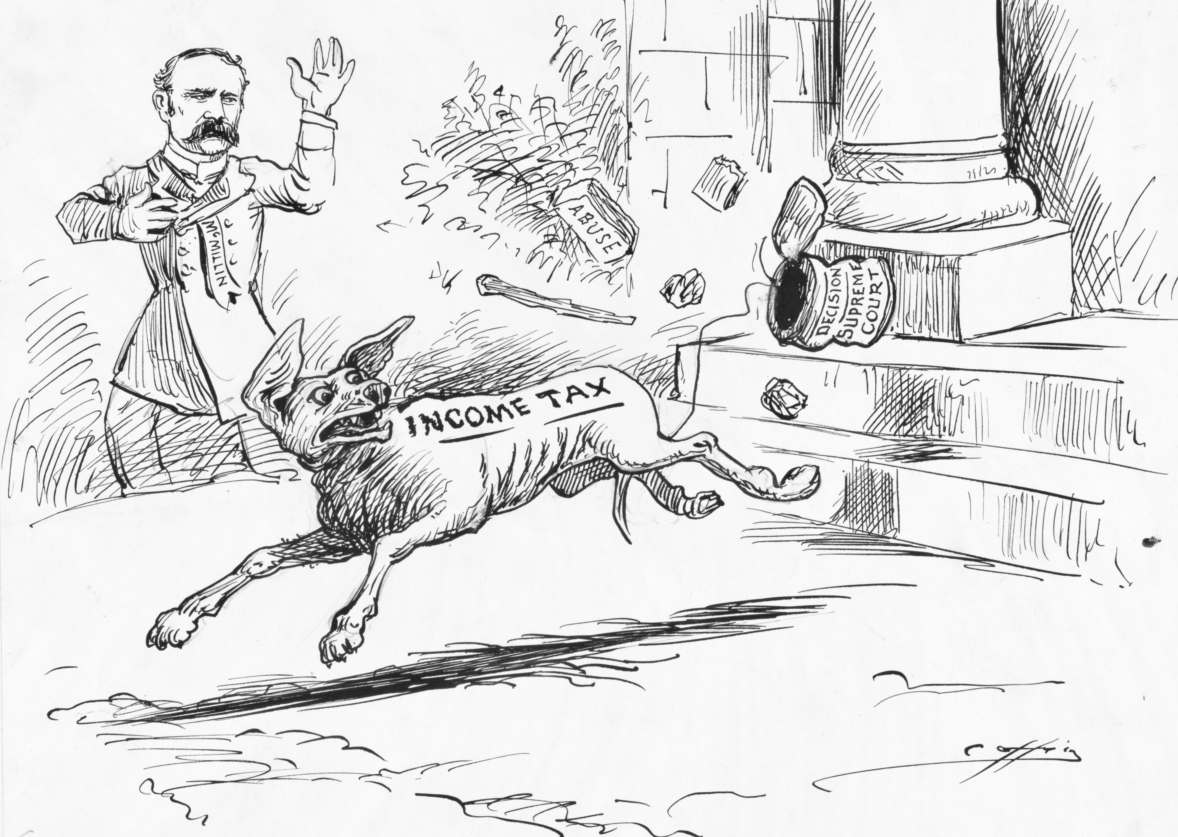 Exit! Income Taxes, a cartoon depicting the U.S. Supreme Court decision, Pollock v. Farmers' Loan & Trust Co. (1895), in which the court declared an income tax amendment to the Wilson-Gorman Tariff unconstitutional. A dog ("income tax") runs away with a can labelled "decision supreme court" while Congressman Benton McMillin, the amendment's sponsor, looks on in horror.